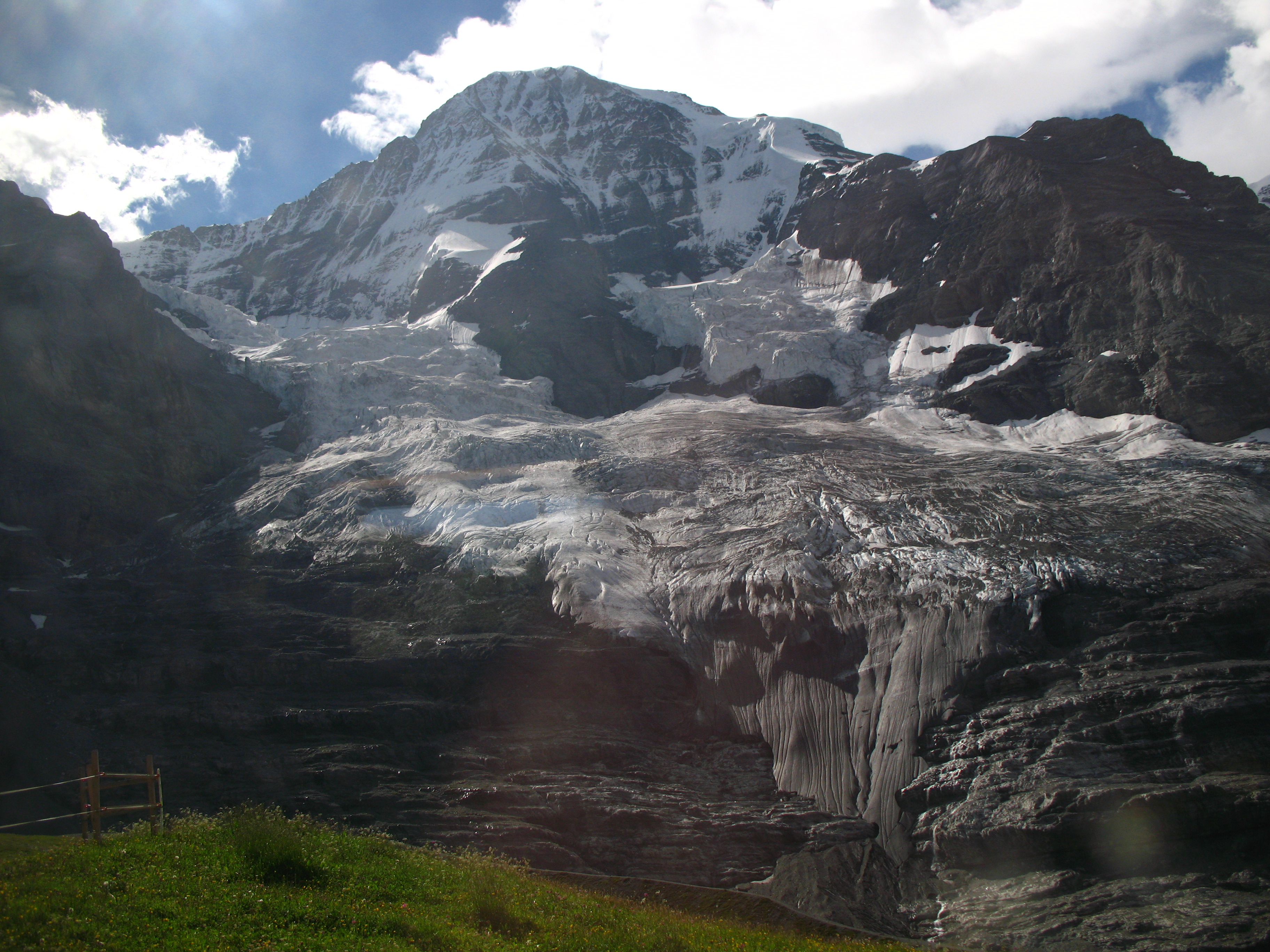 View from the Jungfraubahn, Kleine Scheidegg-Eigergletscher Station, Switzerland